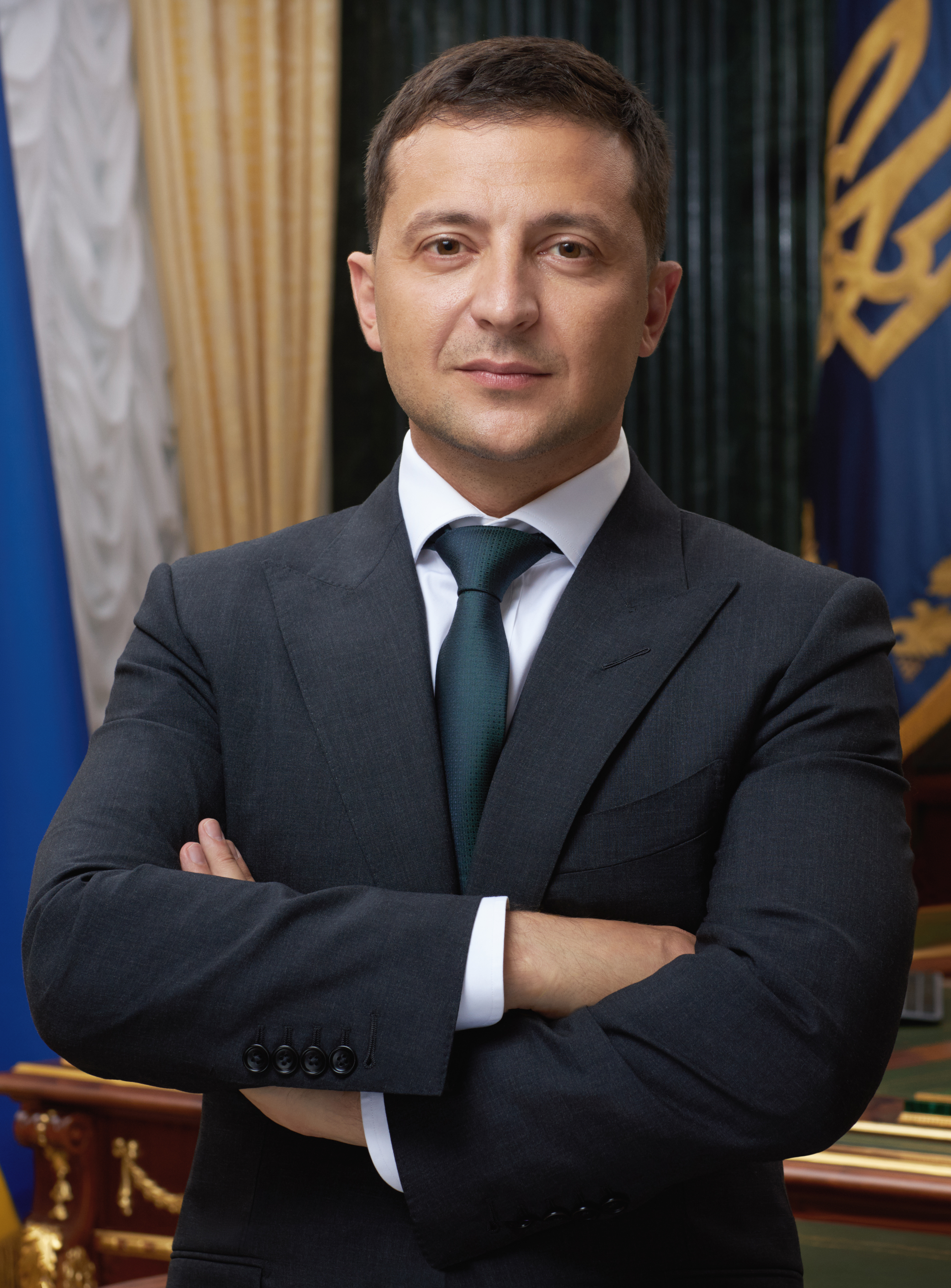 Official portrait of Volodymyr Zelensky